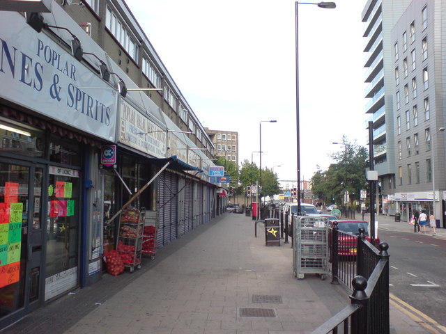 Poplar High Street, E14 Near Bazeley Street, approaching Cotton Street.